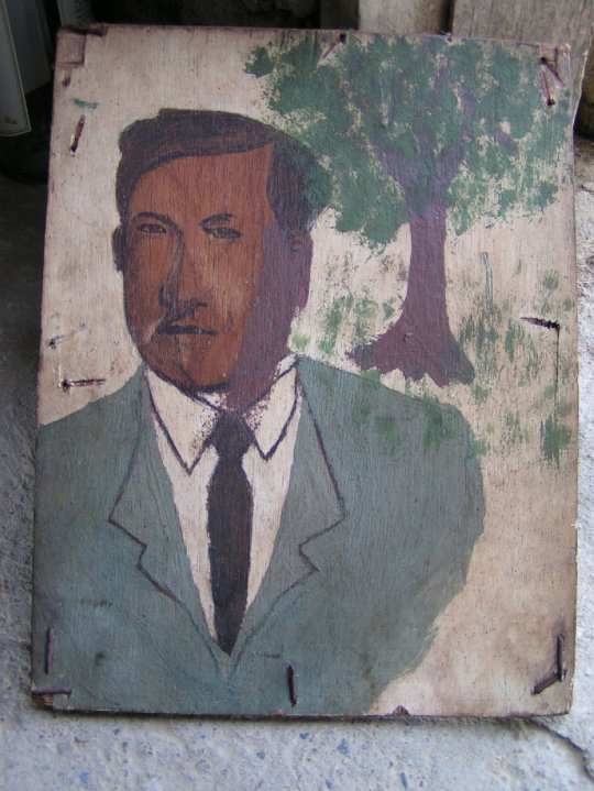 First Attempt in Painting 1977 - Family Circa Heritage asset, a combination of Artex Water Color and unknown for me tinting color and enamel paint with solid plywood. also an experimental work of art, a 7 years old amangpintor inspired by Jose Rizal heroism by his novels , story and poetry "Si Pagong at si Matsing". Amangpintor also tried to capture nature by inserting seem to be realistic tree